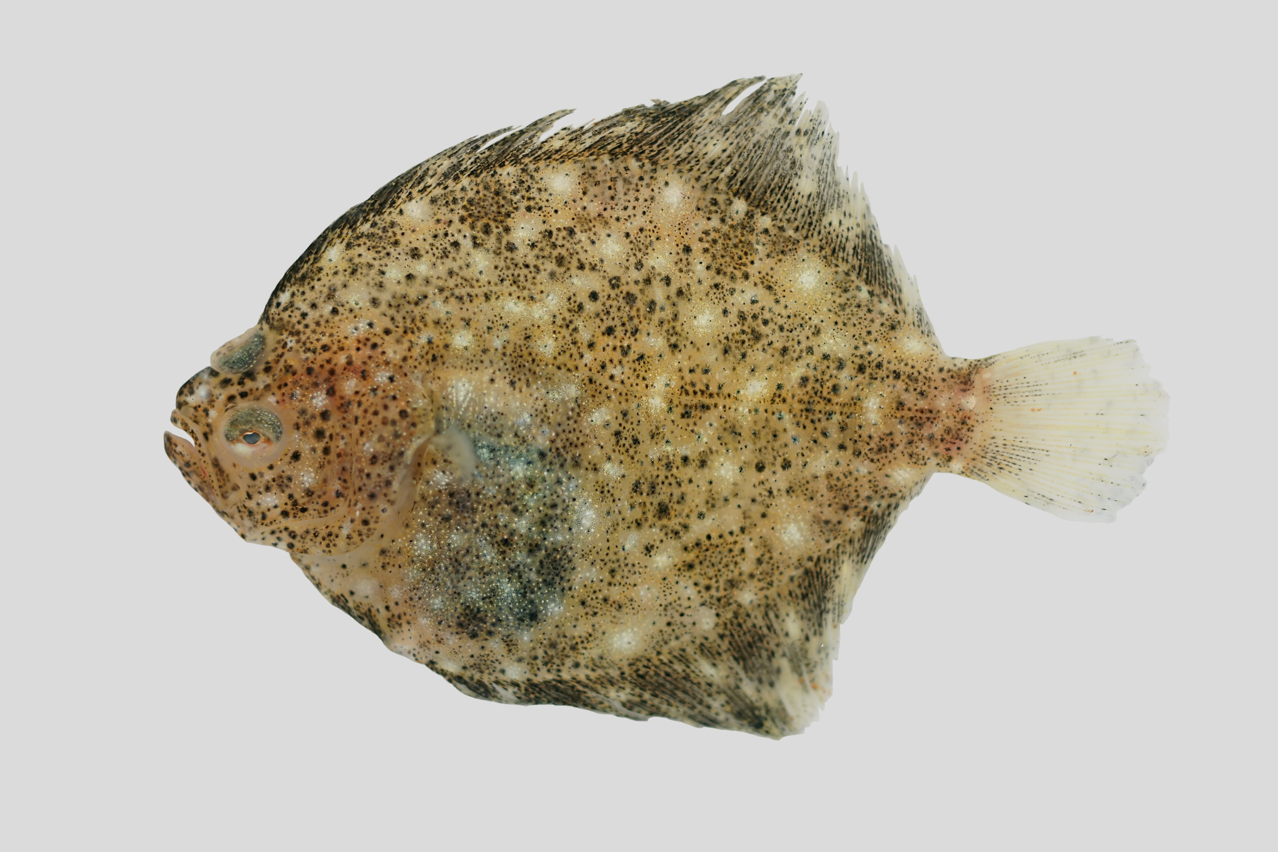 Juvenile turbot on board of RV Belgica from the southern North Sea.